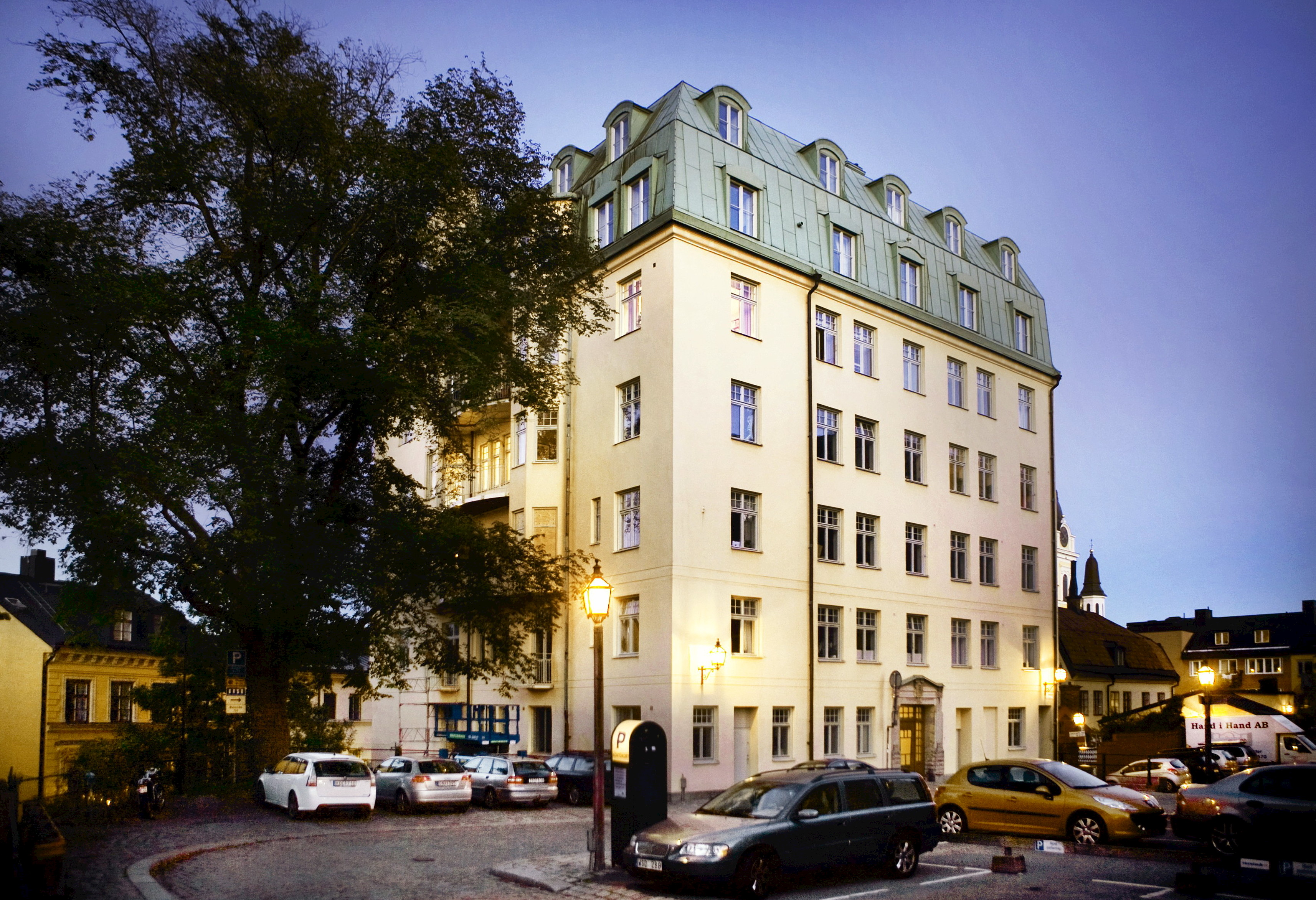 The Millennium tour. Guidad tour i stockholm med Stieg Larssons Millenniumtrilogi som tema. Station: Fiskargatan 9 (Höga stigen större 17)